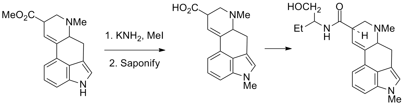 GB 854569 (1960); A. Hofmann, F. Troxler, US 3113133 (1963 to Sandoz).